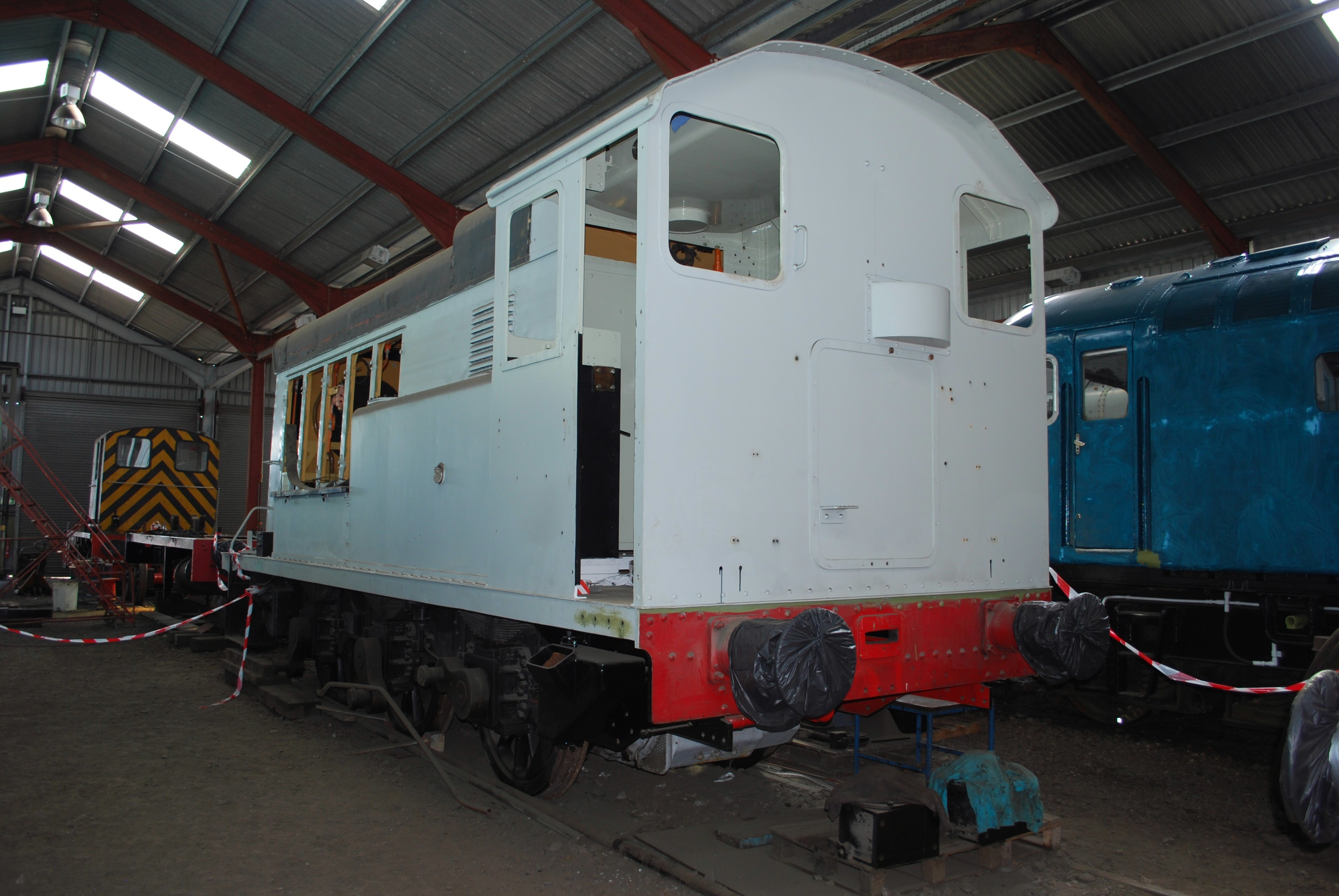 LMS English Electric/Hawthorn Leslie 350hp diesel electric 0-6-0 shunter (EE/HL No.3841 of 1935), LMS No.7069. The engine is an English Electic 6K. In 1940 it was requisitioned by the War Department as their No.18, shipped to France but taken over by the Germans on the Fall of France. After D-Day 1944, it was recaptured by the Allies and then used by the French, working at a General Reserve Munitions Depot until 1957 when it was sold to the Chemin de Fer de Mamers a St Calais as their No.7 until 1972 when it fell into disuse. In 1973 it was sold to a loco dealers who renovated it but it found no buyer until bought for preservation in the UK in 1988. The photo shows 7069 under restoration in Toddington shed, Gloucestershire-Warwickshire Railway, 05/13. Three sisters had stayed in the UK in 1940 and eventually became BR Nos.12000-2, being withdrawn 1956-62.